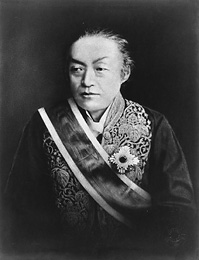 Portrait of Iwakura Tomomi (岩倉具視, 1825 – 1883)